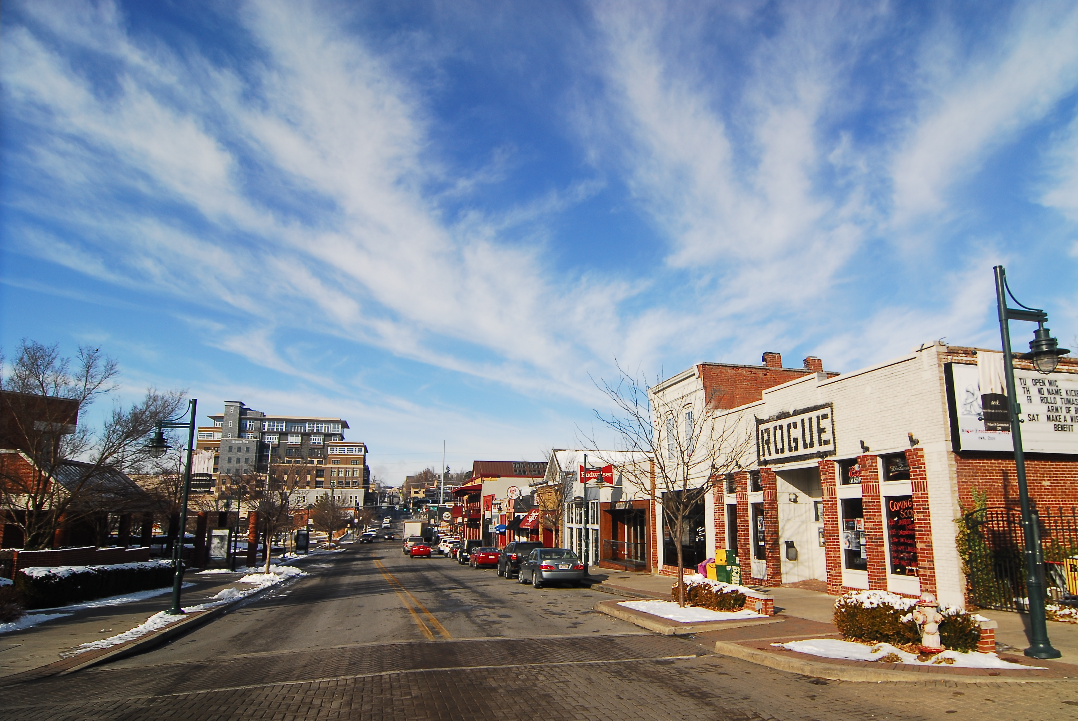 Dickson St., one of Arkansas most lively streets, near the University of Arkansas campus.